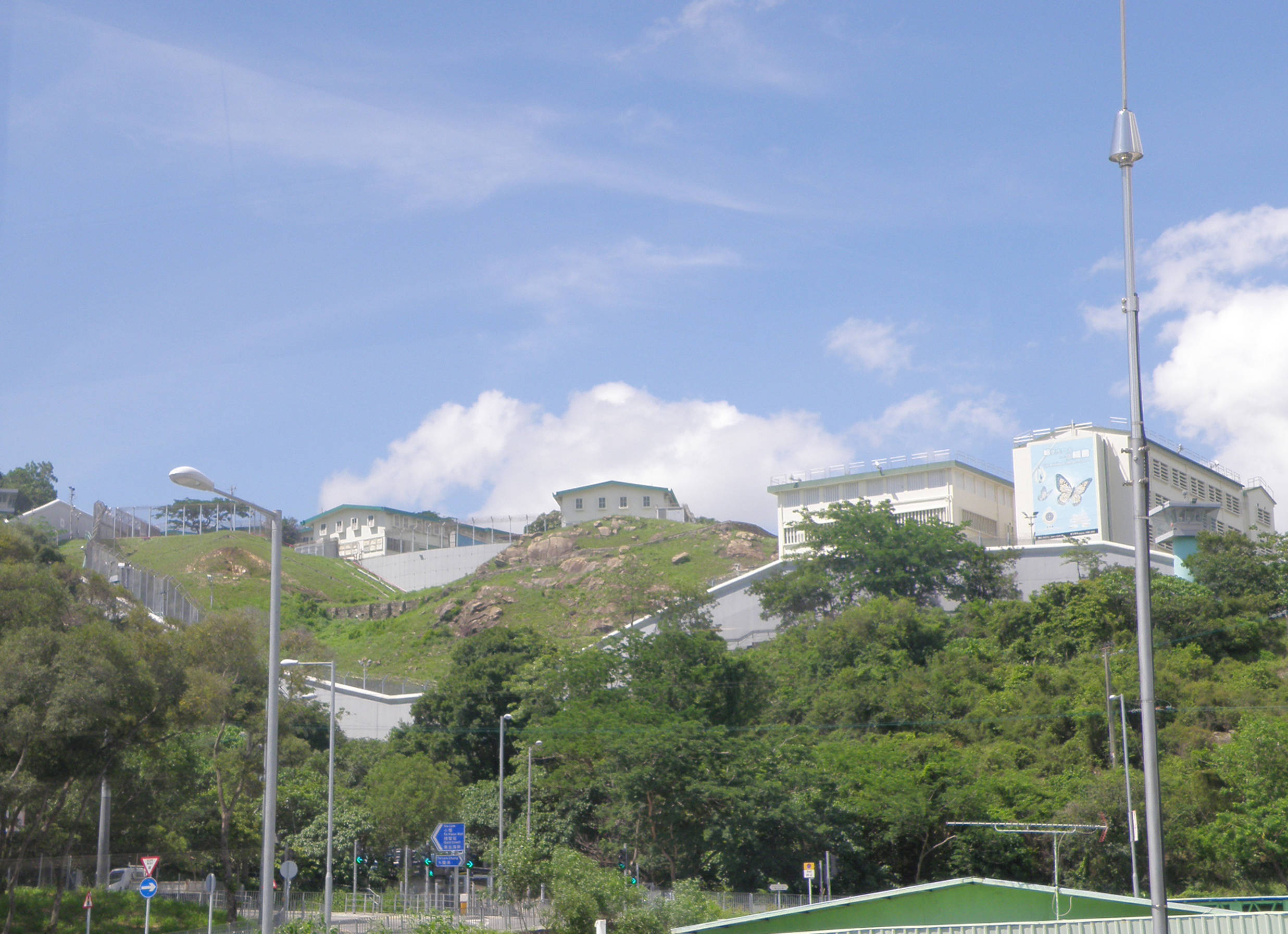 Psychiatric centre in Siu Lam, Hong Kong.